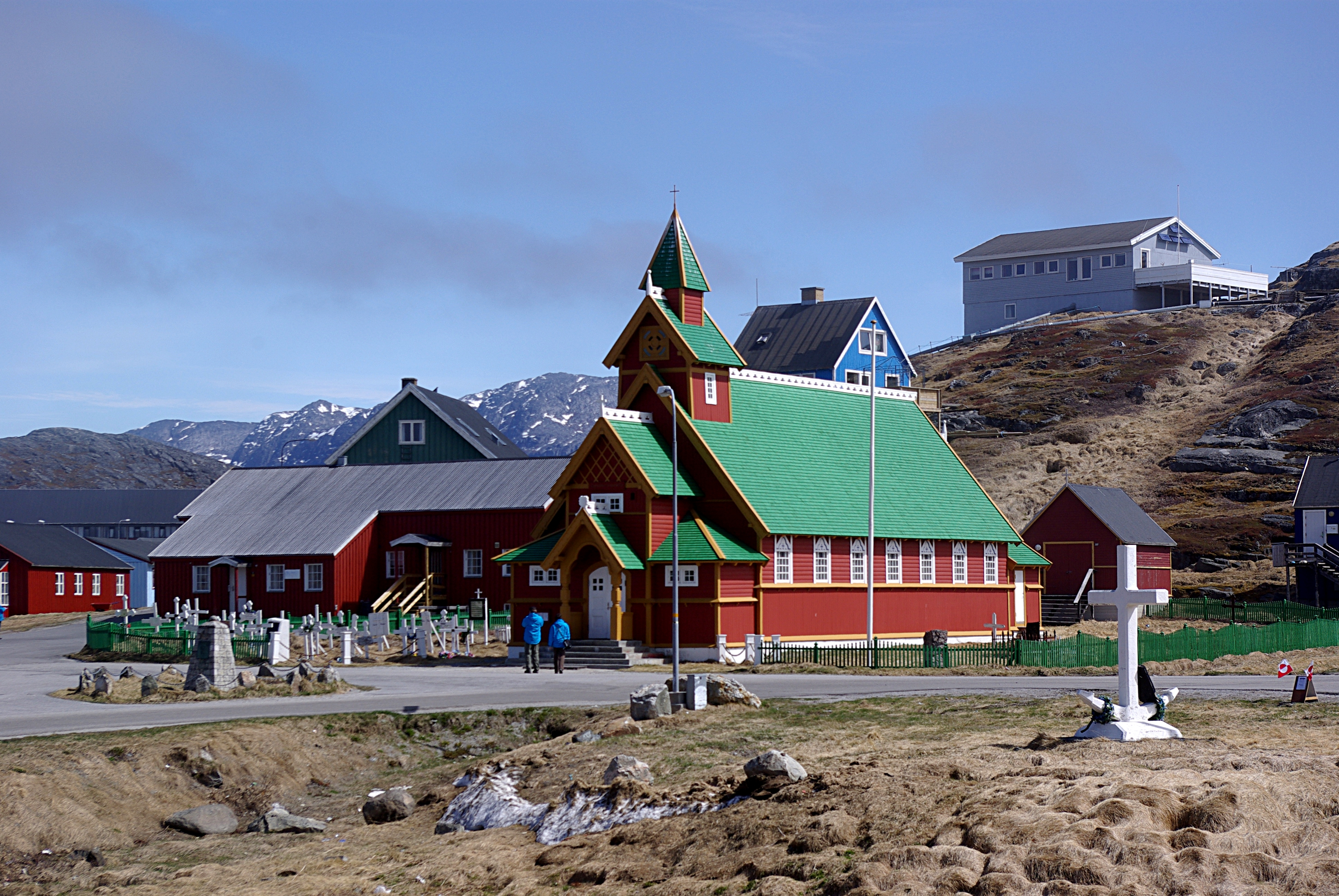 Paamiut in Greenland. The church was build in 1909.